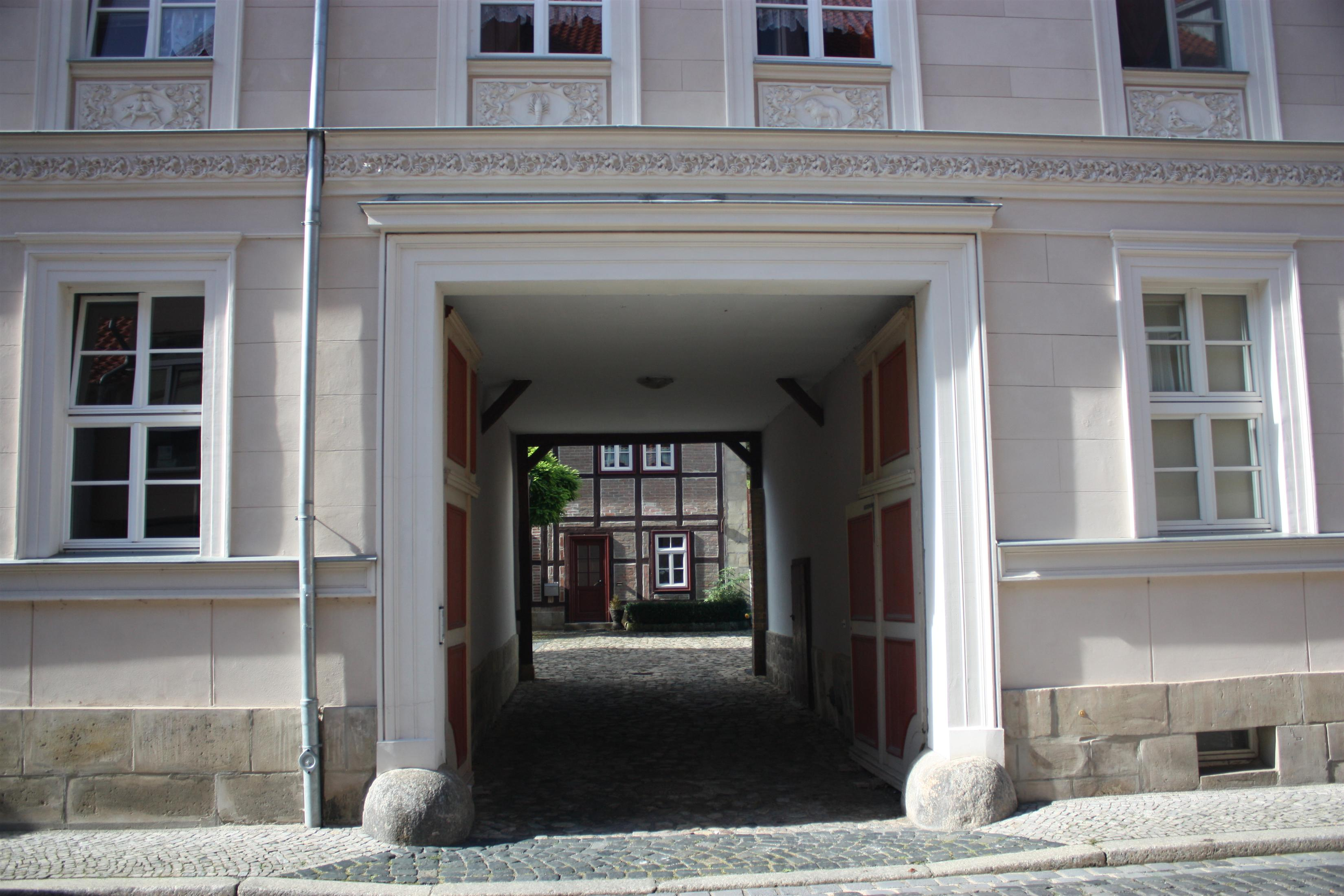 This is a photograph of an architectural monument.It is on the list of cultural monuments of Quedlinburg Quedlinburg Lange Gasse